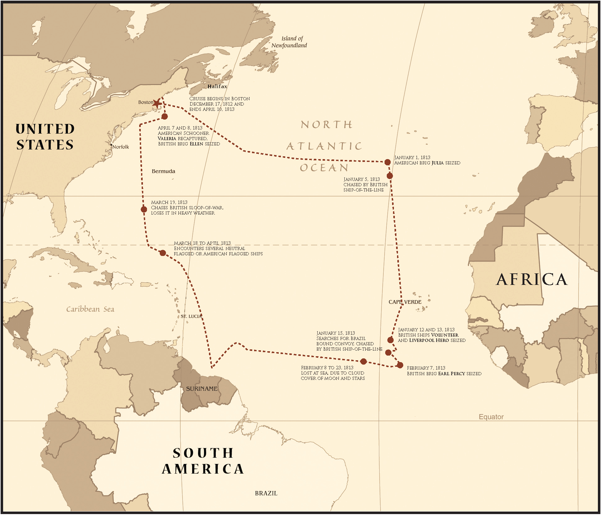 A Map of the Frigate Chesapeake's First War of 1812 Cruise.